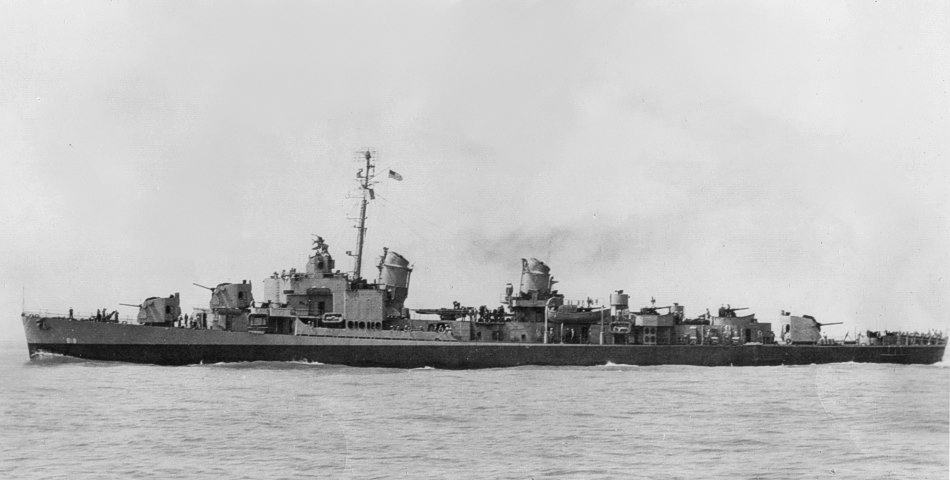 The U.S. Navy destroyer USS New (DD-818) off Orange, Texas (USA), on 11 April 1946. She was commissioned on 5 April 1946 and is painted in wartime Measure 22 camouflage.